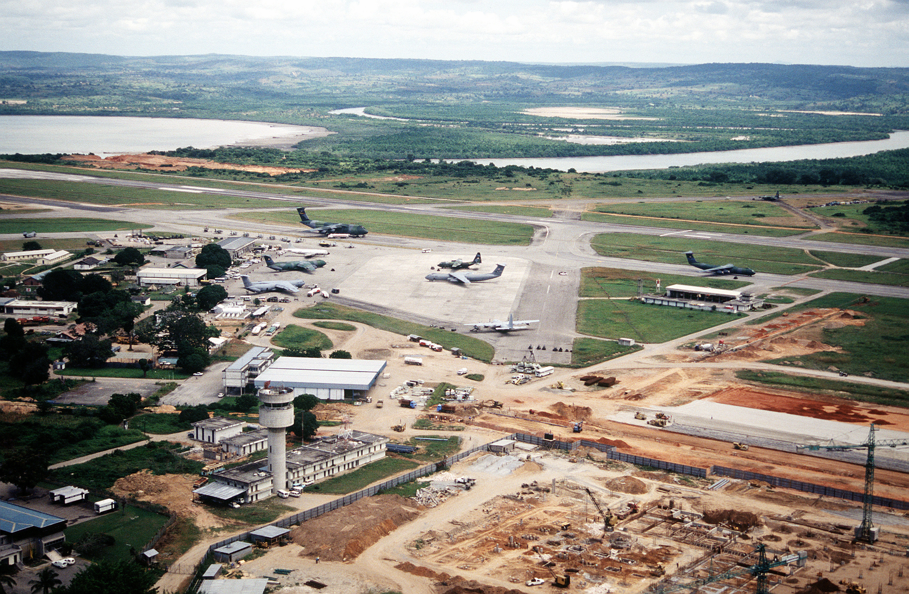 Aerial view of C-141s and a C-130 parked on the ramp and a C-5 on the runway in the background at the airport. In the foreground, construction can be seen. Mombasa is one of the main staging areas for airlift missions flying into Goma, Zaire to deliver relief goods to the Rwandan refugees.